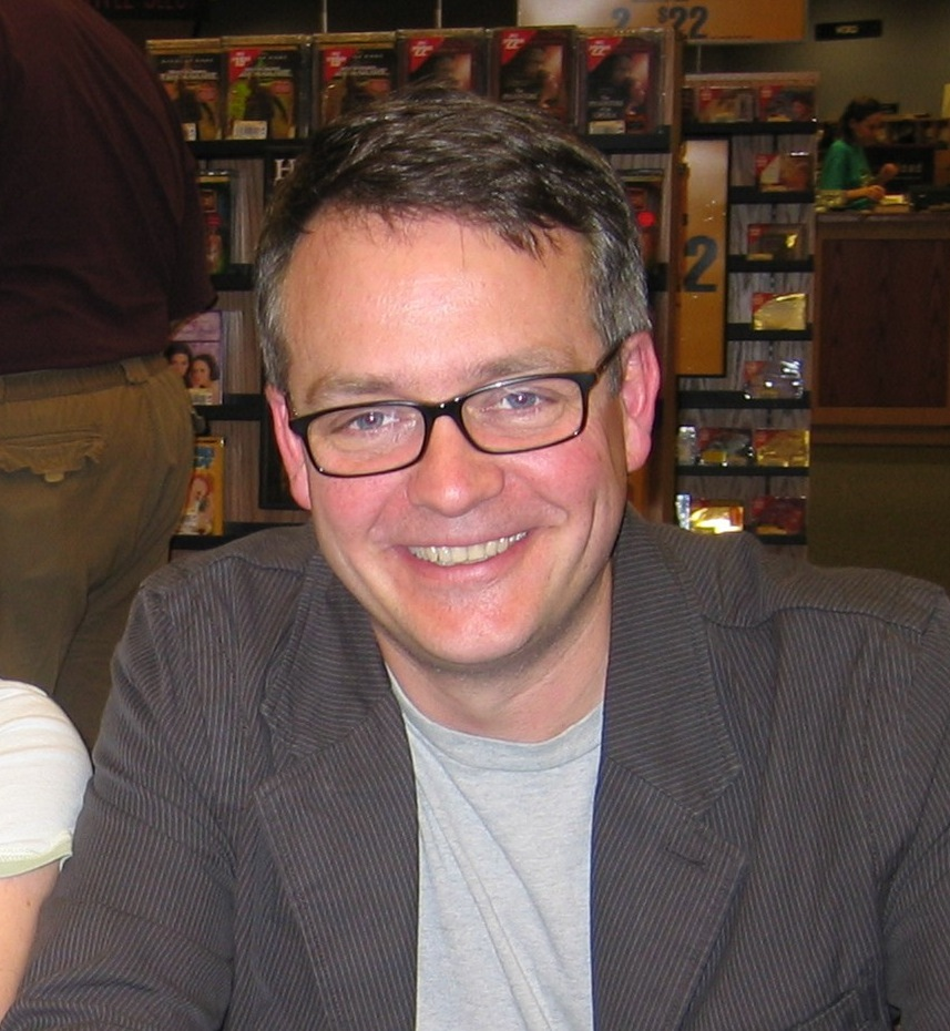 Charlie Higson, comedian and Young Bond author, taken at Los Angeles book signing in 2005 by John Cox